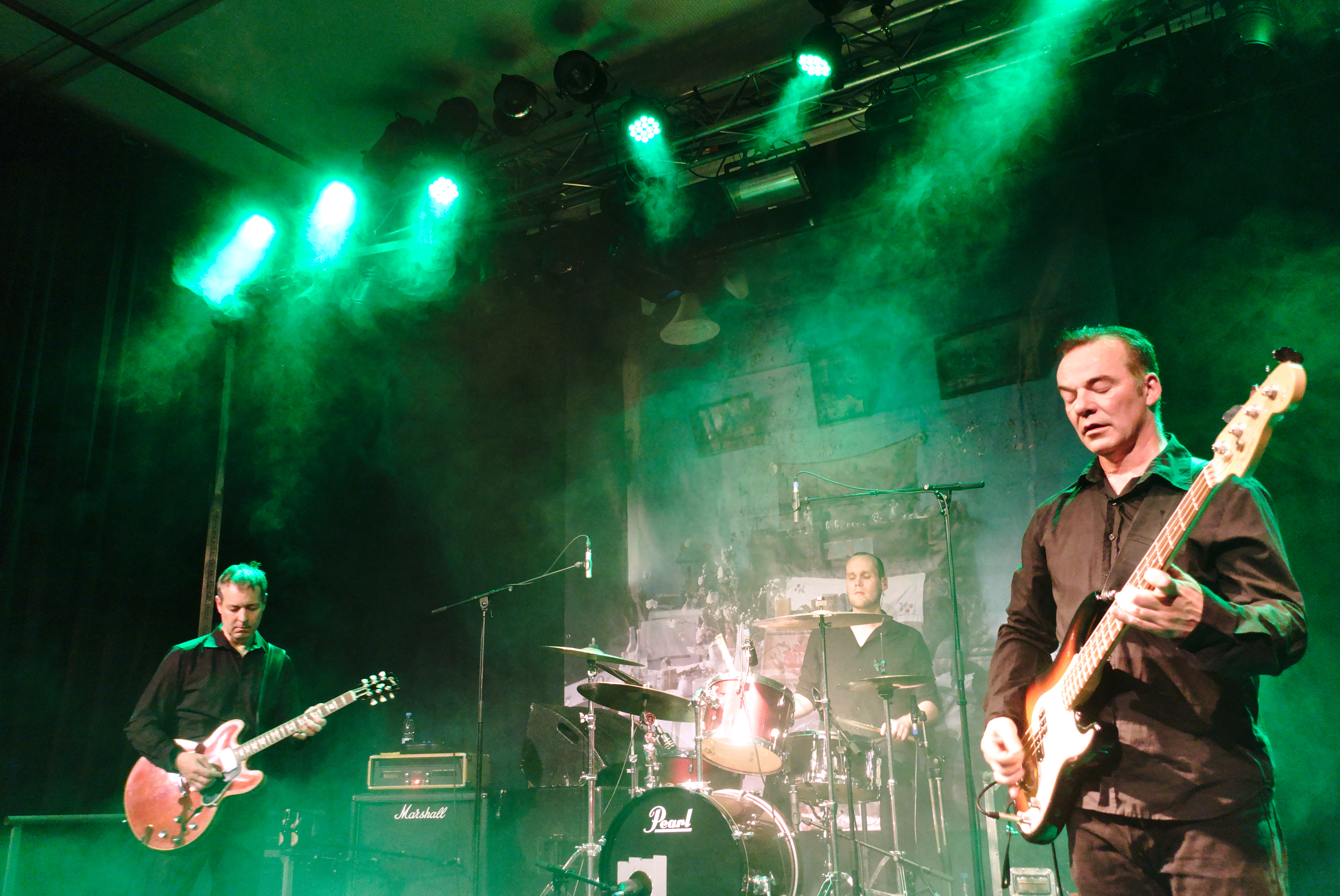 Pink Turns Blue in concert, Stuttgart, ClubCANN